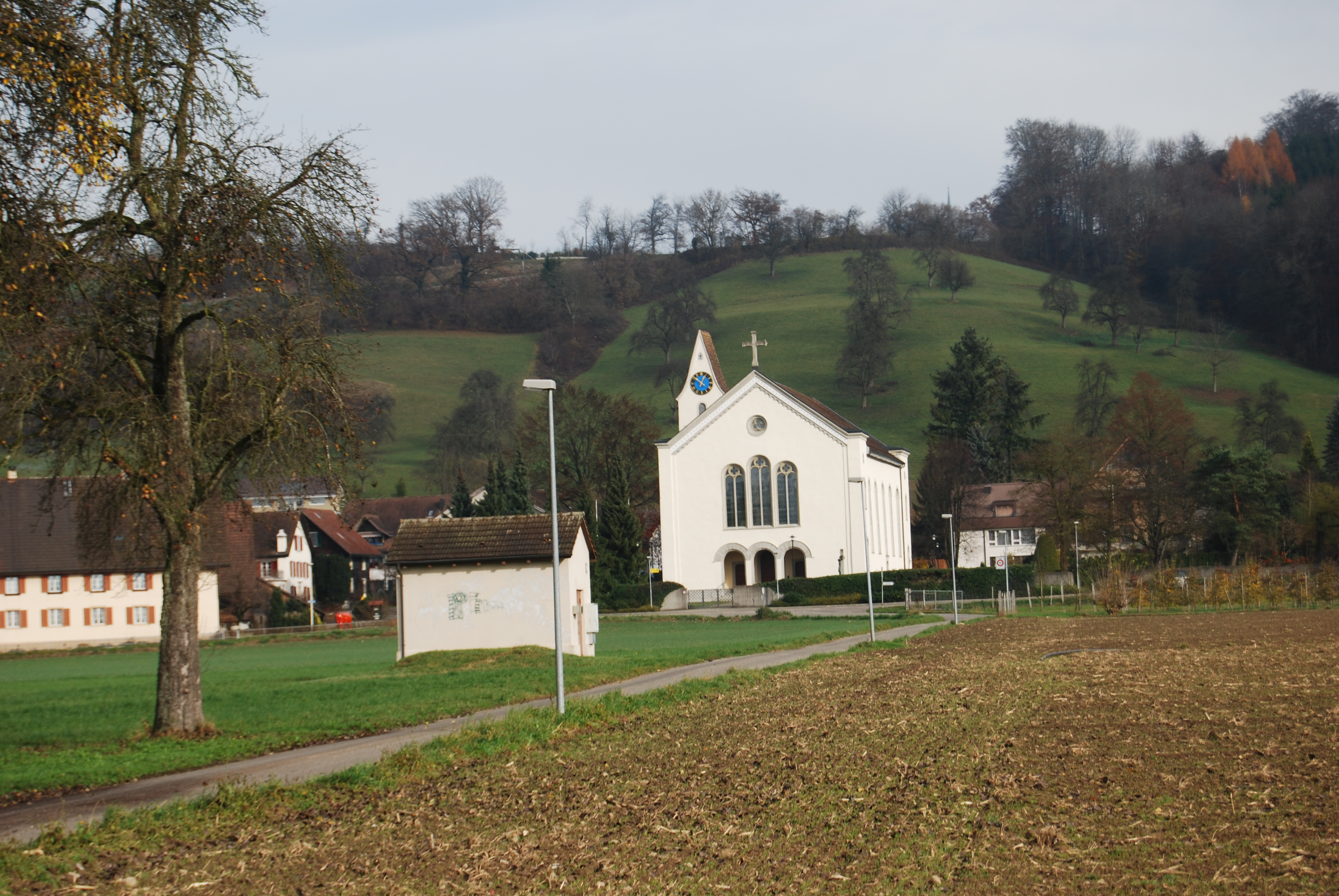 Church of Zufikon, canton of Aargau, SwitzerlandEsperanto: Preĝejo de Zufikon, Kantono Argovio, Svislando